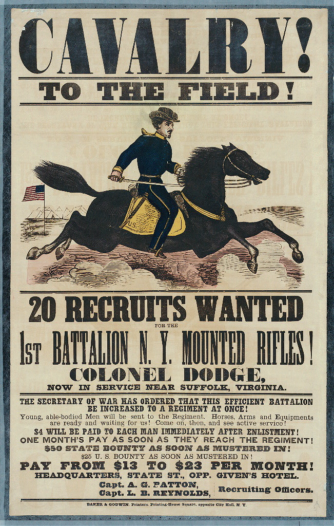 Recruiting poster for the New York Cavalry, 1st Battalion, Mounted Rifles, which served from 1861 to 1865 in the American Civil War. The battalion was under command of Col. C. C. Dodge, assisted by Capt. A. G. Patton and Capt. L. B. Reynolds, recruiting officers. Courtesy The New York Historical Society and the Library of Congress American Memory.